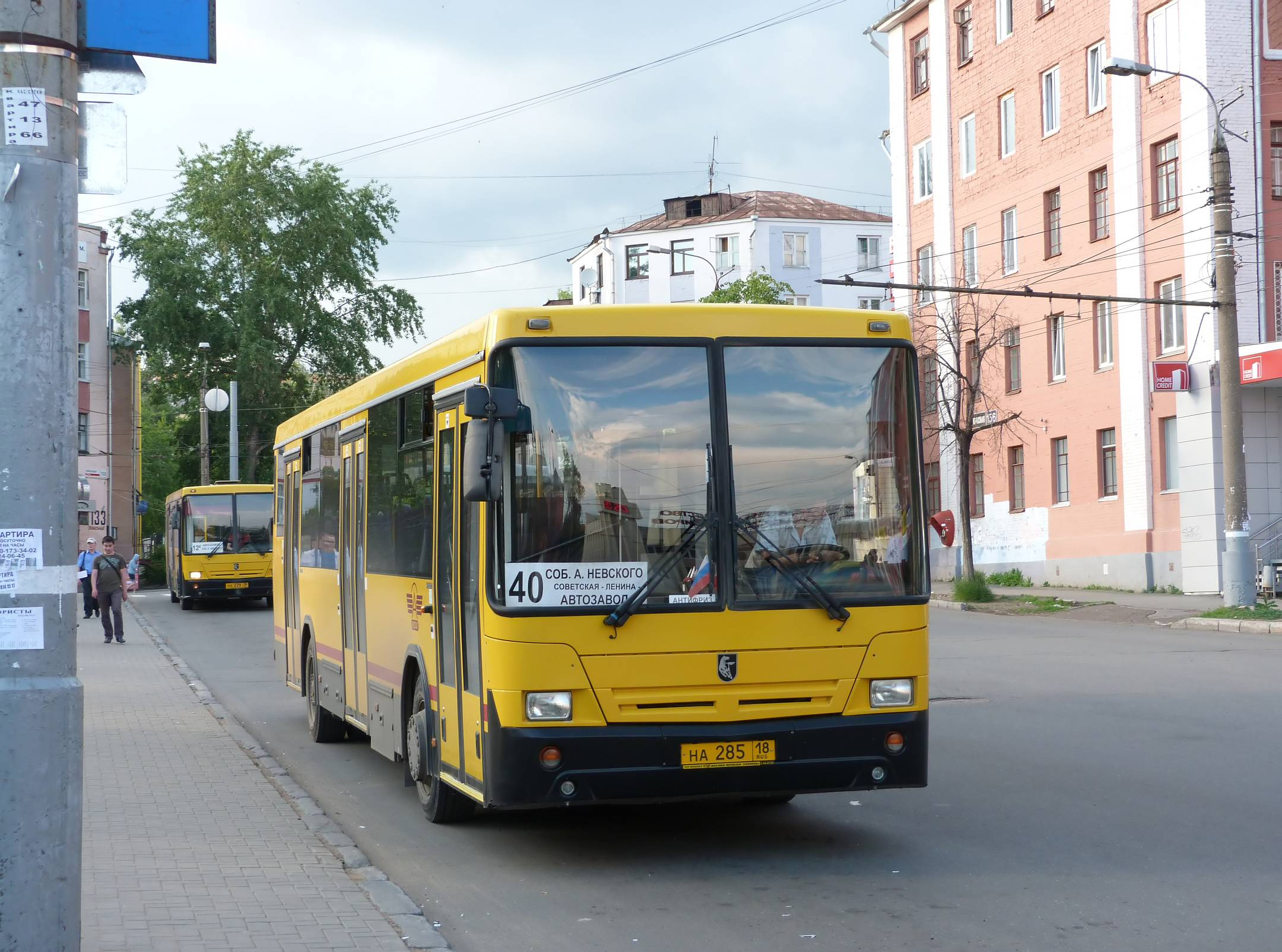 Bus NEFAZ on route 40 in Izhevsk